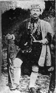 Hristos Lihadiotis